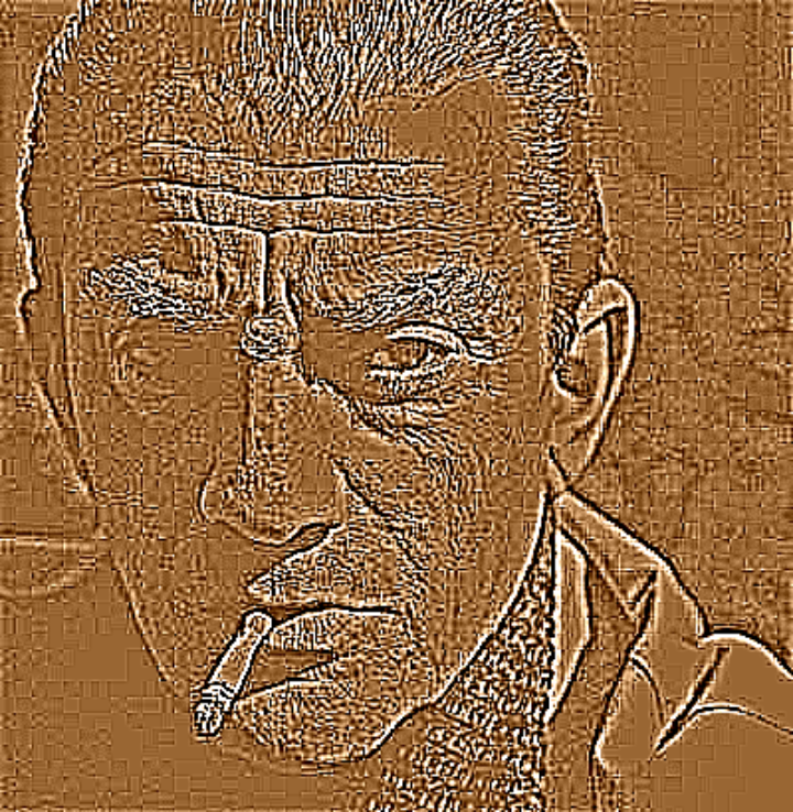 Drawing of the Italian film director Luchino Visconti.